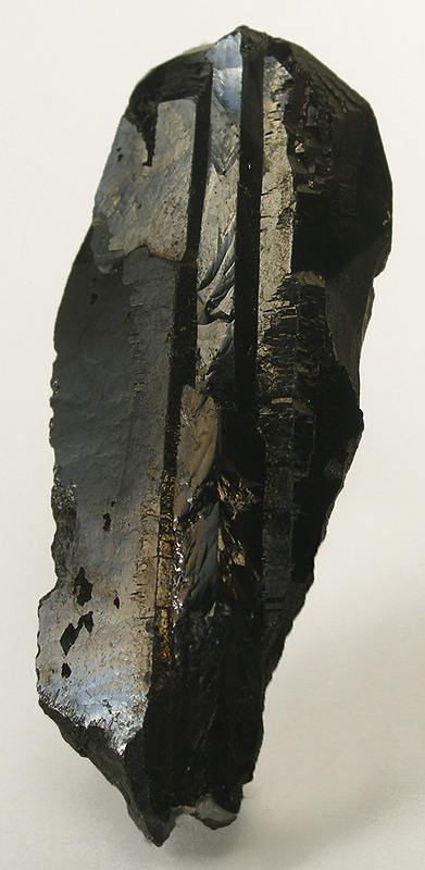 Cassiterite, Wodginite Locality: Lavia Jabuti, Galileia, Minas Gerais, Brazil Size: miniature, 3.7 x 1.5 x 0.7 cm Wodginite epitaxial on Cassiterite This is a superb, sharp, lustrous Wodginite specimen. Surprisingly, it turns out to be a thick coating of epitaxial Wodginite that overgrew a decaying spindle of internal Cassiterite, now almost vanished. Aesthetic, rare, and world-class. This is an important specimen from a small find of the early 1980's or late 1970s that really surprised people. The wodginite from this find is superb anyways - unusually lustrous and sharp compared to the mineral from other localities. These are very hard to come by. I am told that the pocket was only the size of a basketball and the find limited to some dozens of specimens. This one, at 3.7 cm, is one of the larger pieces and is quite significant. When these first made an appearance at major mineral shows some 35 years ago, they were a big hit with collectors because of their odd formation. Richard Gaines, a well-known collector on the East Coast at the time, had the pocket and many of the best pieces. However, John White's label notes he got this directly from Carlos Barbosa in 1978 - probably right when they came out and before their ID as an epitaxial overgrowth had been determined. Ex. John White Collection.